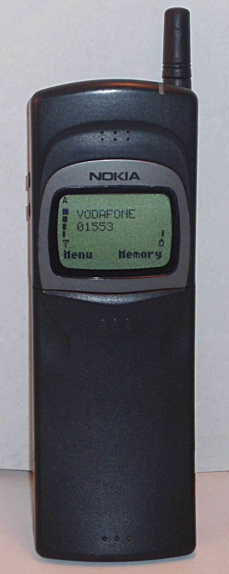 The Nokia 8110i mobile phone.